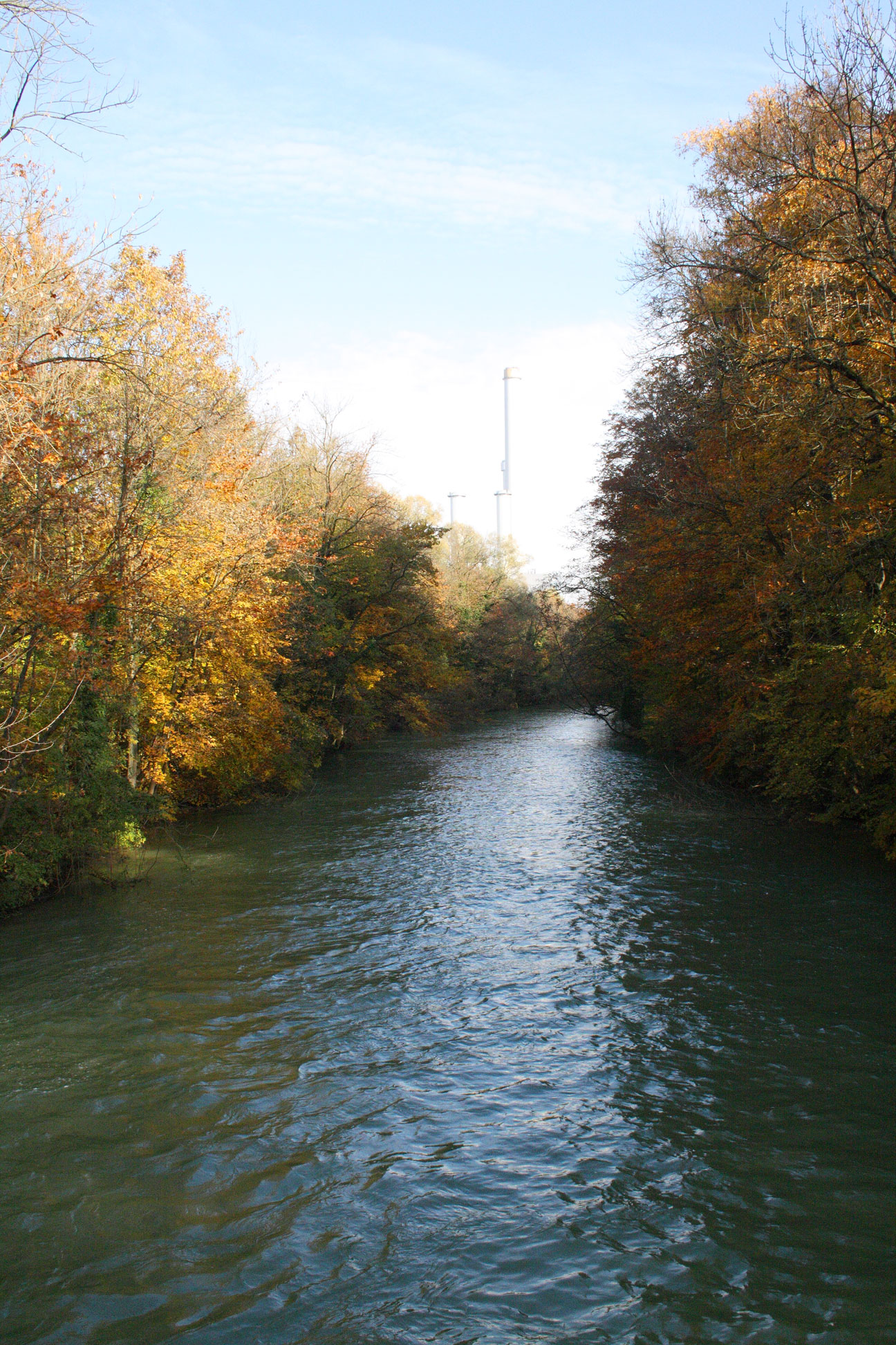 Großer Stadtbach (Large town stream) at the Flaucher, seen from the Schinderbrücke towards north, in the background the thermal power plant München Süd